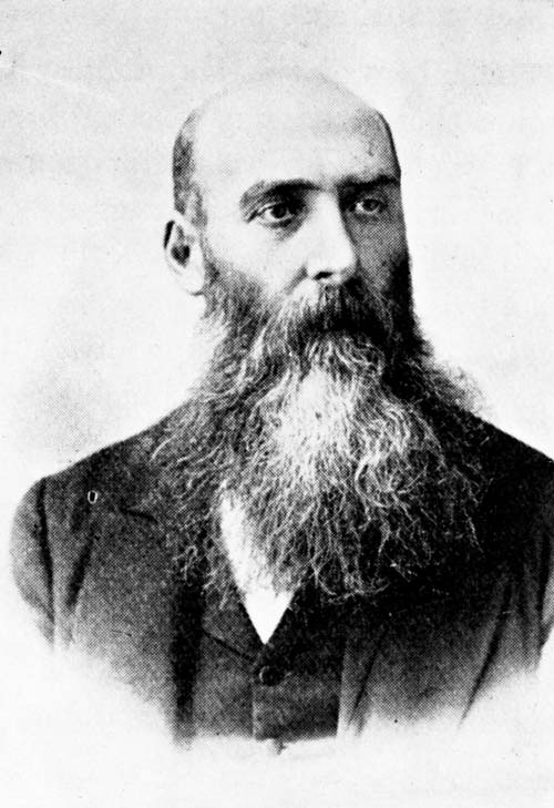 Portrait of William Sanderson Fitzgerald